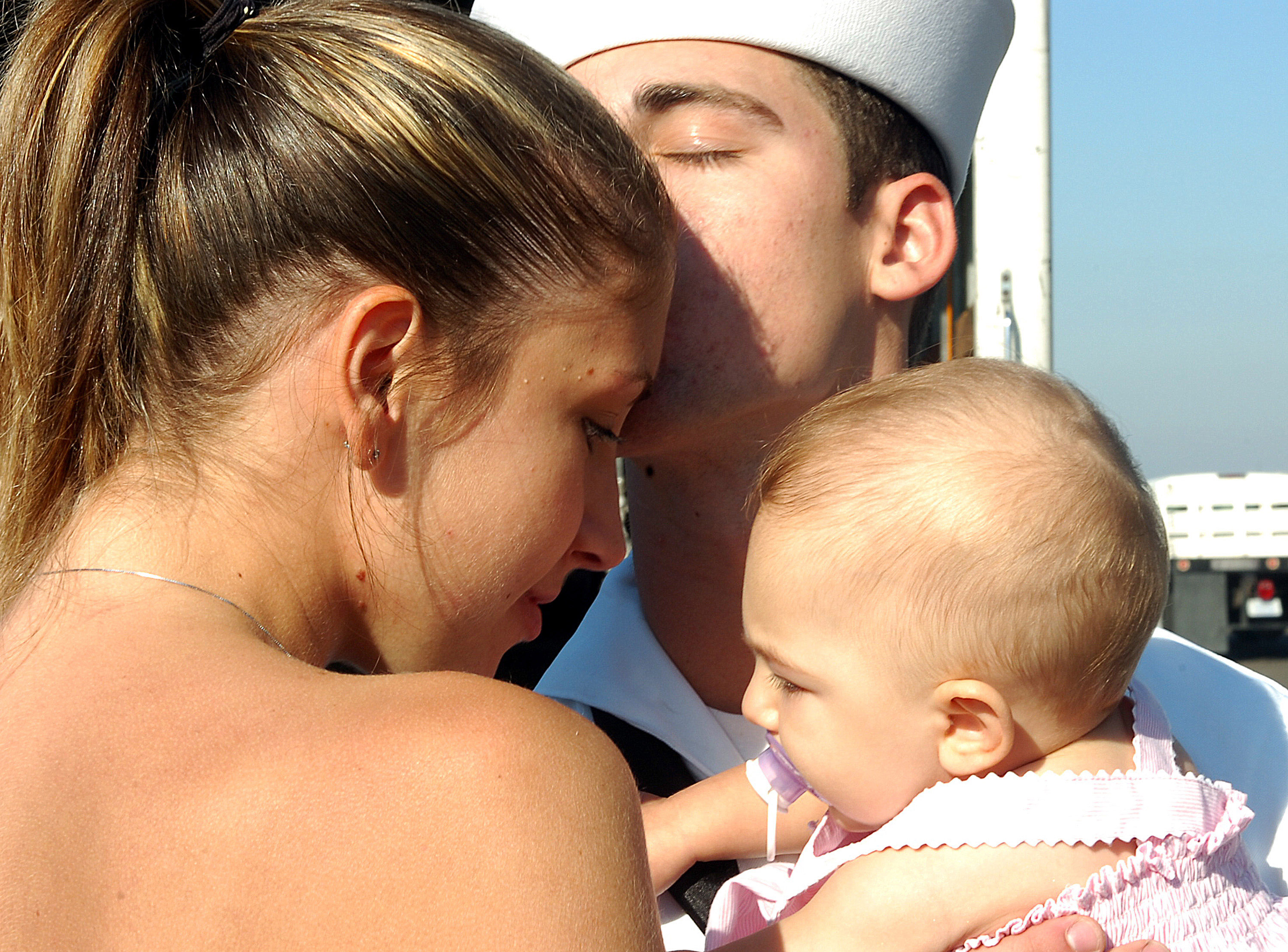 U.S. Navy Boatswain's Mate 3rd Class Brian Sitarz embraces his wife and his 6-month-old daughter during a homecoming ceremony for USS Pearl Harbor (LSD 52) at Naval Base San Diego, Calif., on Sept. 26, 2007. The Pearl Harbor is returning following a six-month deployment in support of Partnership of the Americas 2007. Partnership of the Americas focuses on enhancing relationships with partner nations through a variety of exercises and events at sea and on shore throughout Latin America and the Caribbean.